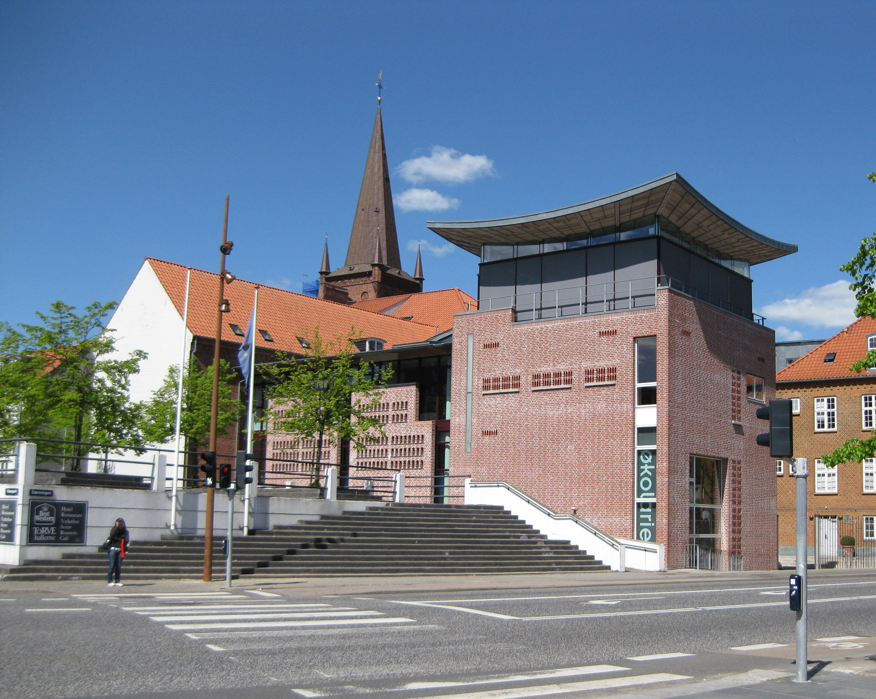 The knowledge and exhibition centre "Økolariet" in the town "Vejle". The town is located in South-Central Jutland, Denmark.